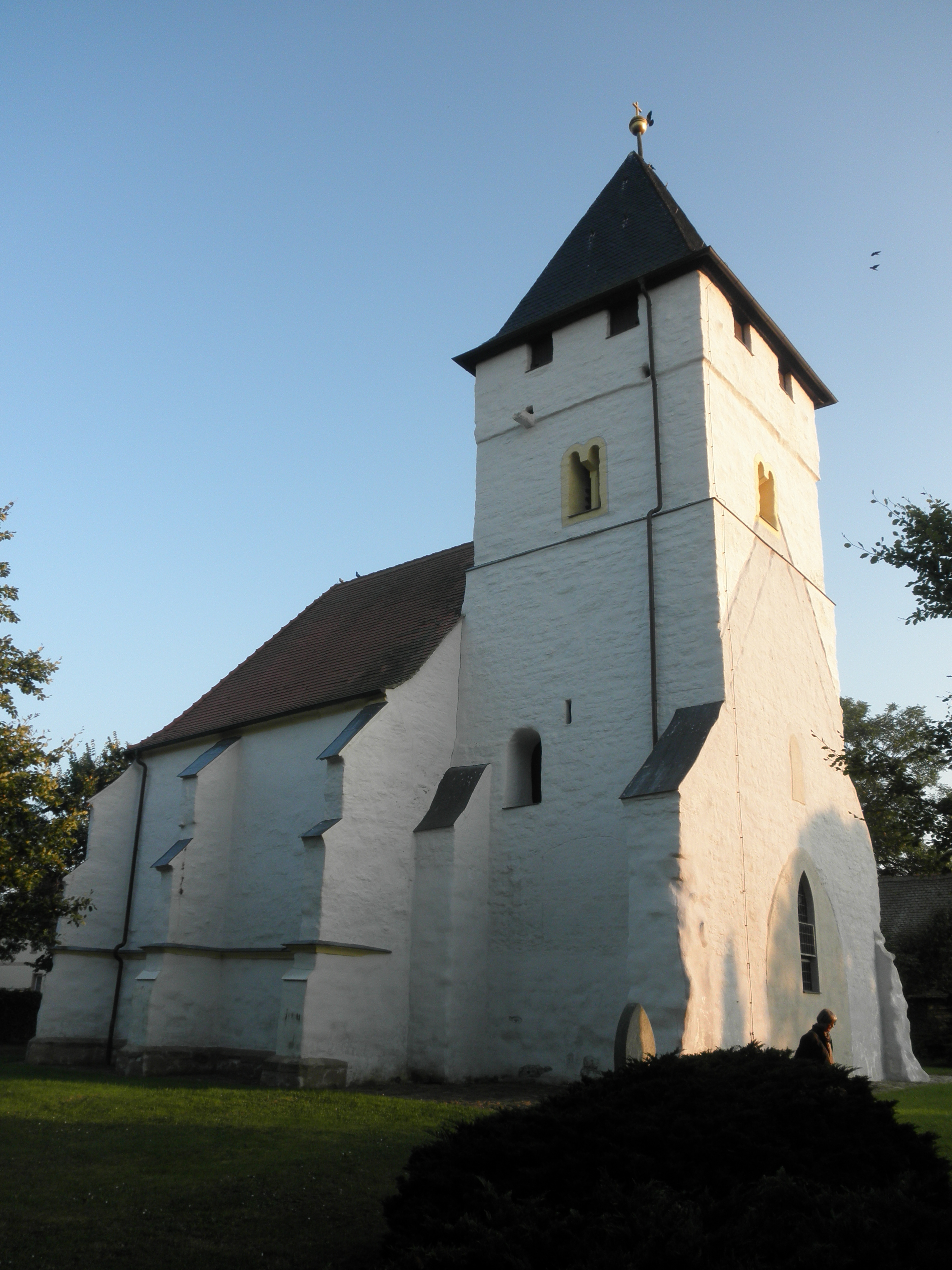 Old Peter and Paul Church in Donndorf in Thuringia